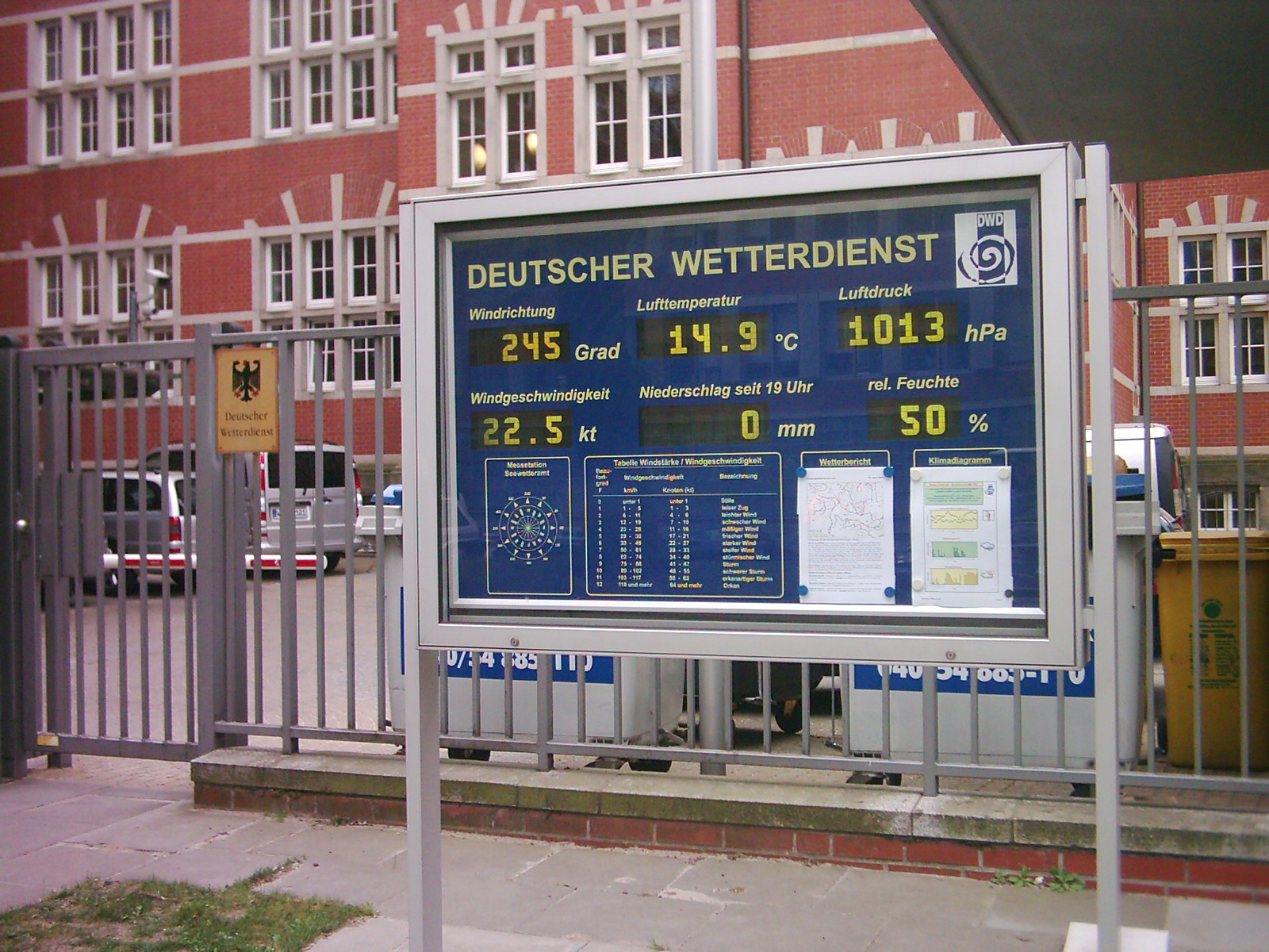 German Weather Service in Hamburg-St. Pauli, Germany.